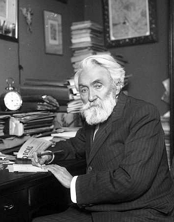 French politician, historian and environmentalist Charles Beauquier (1833-1916).